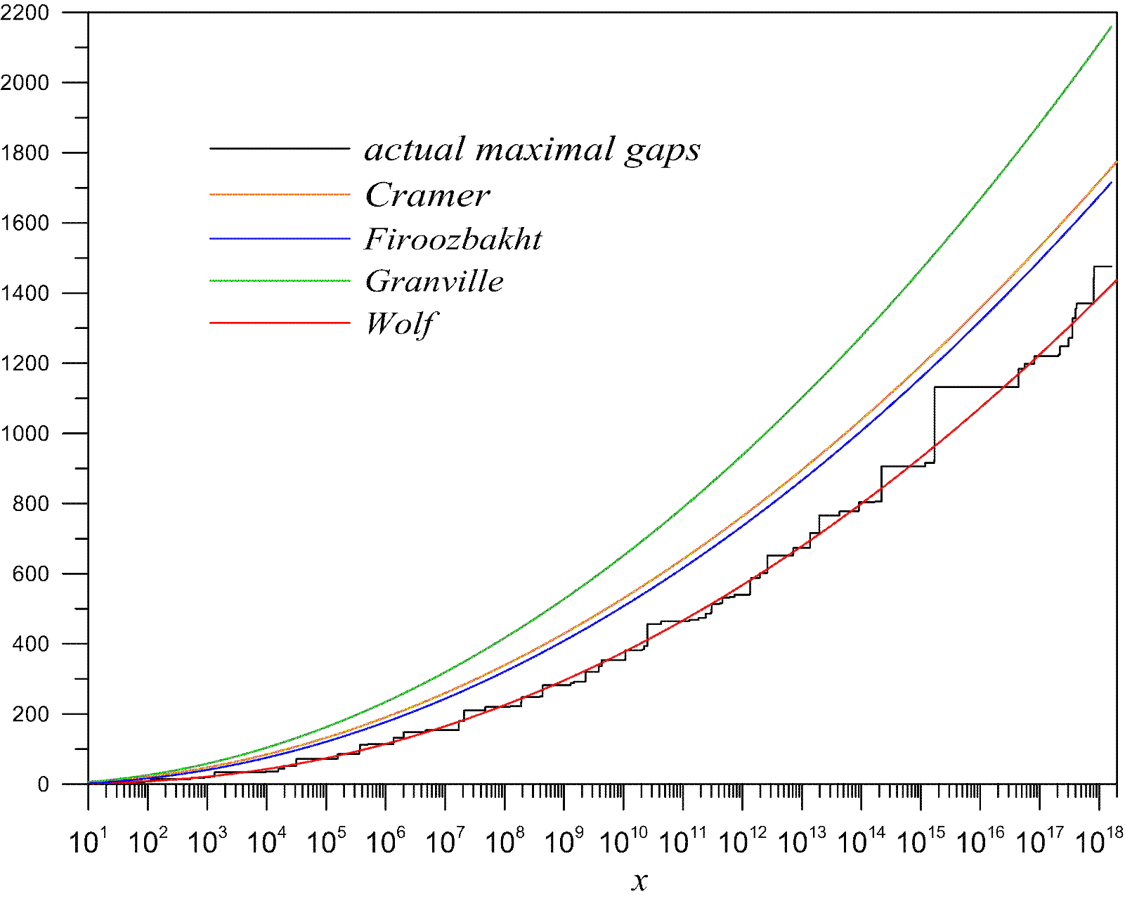 Plot comparing the actual maximal gaps between consecutive primes with different conjectures